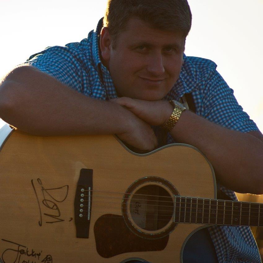 Logan Venter